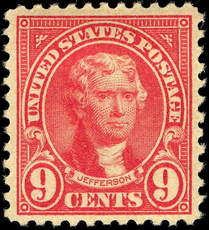 US stamp honoring Thomas Jefferson